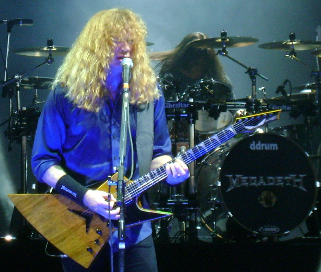 Dave Mustaine performing in 2011 at Hartford, CT with Megadeth.